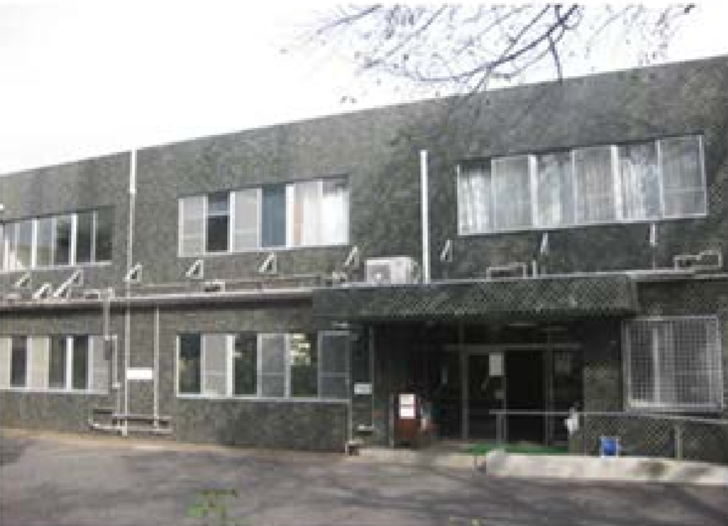 Tokyo Juvenile Classification Home